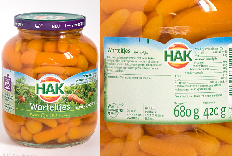 Glass jar of cooked young carrots, produced by the company HAK B.V., Giessen, Netherlands, 2013.